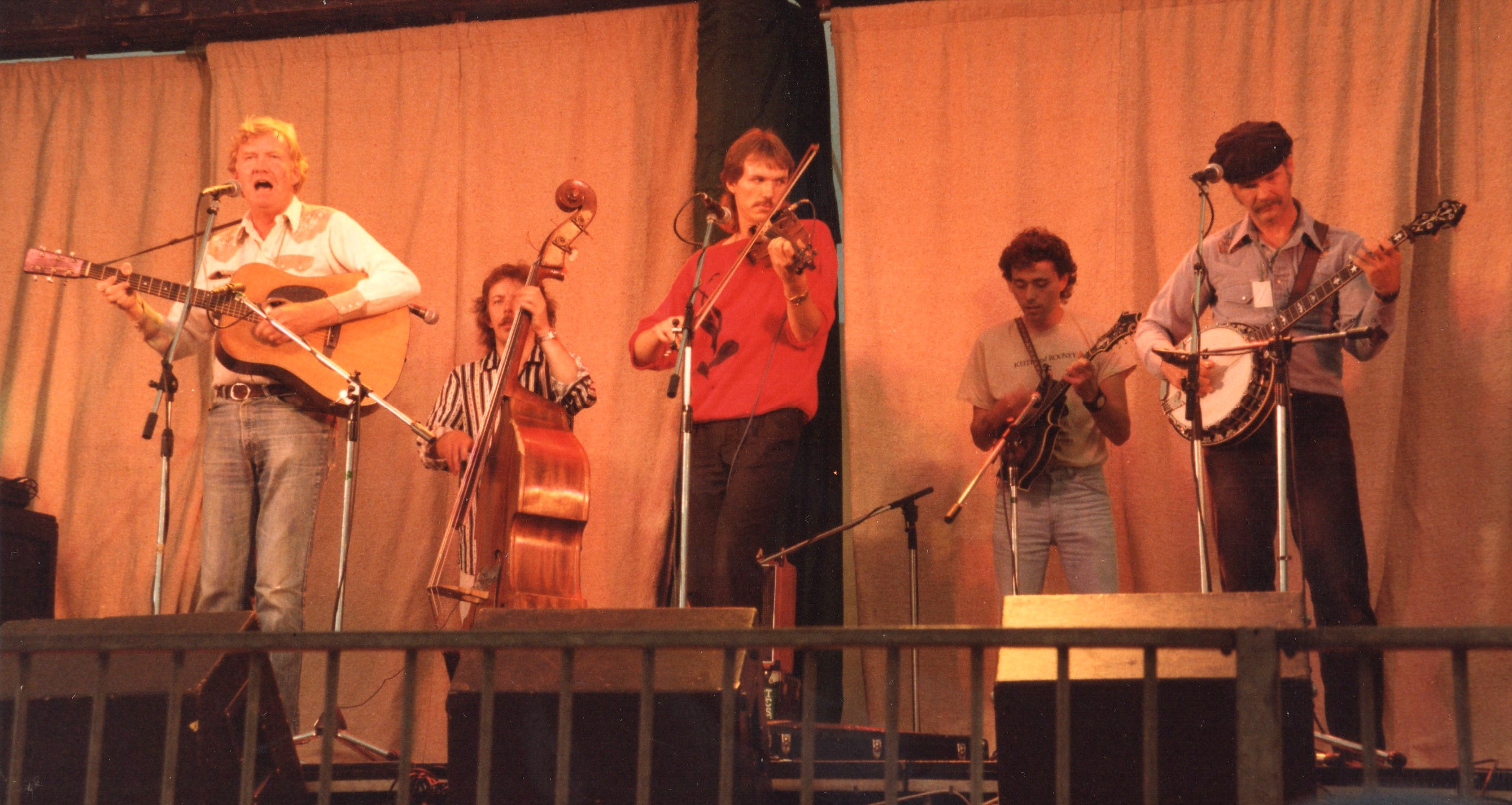 Jim Rooney, Mark O'Connor and Bill Keith (U.S. bluegrass performers) with accompanists on stage at the 1985 Cambridge Folk Festival (Tony Rees photograph)